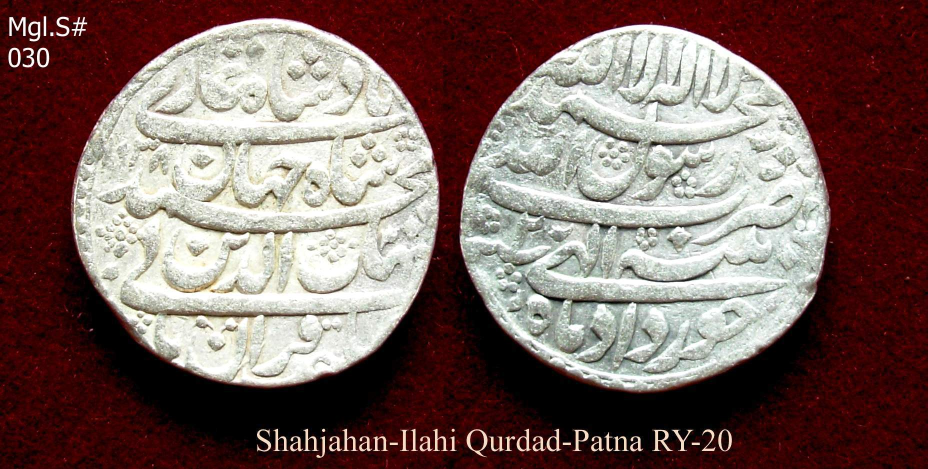 Silver rupee from my cabinet